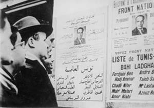 Electoral Campaign_-_national_assembly_-_Tunisia_-_1956